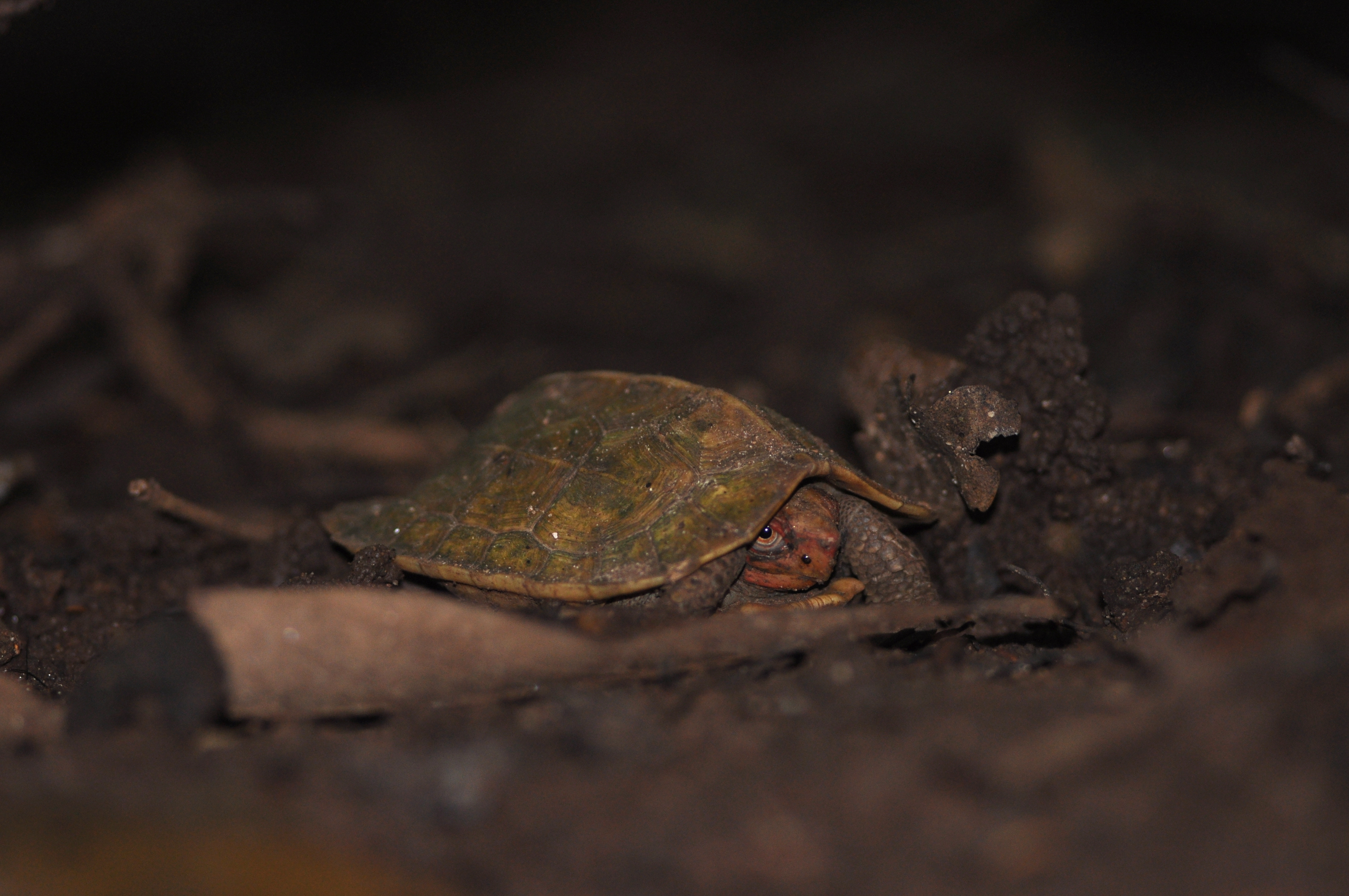 Cane turtle on the forest floor in a rainforest in the Anamalai Tiger Reserve, Tamil Nadu